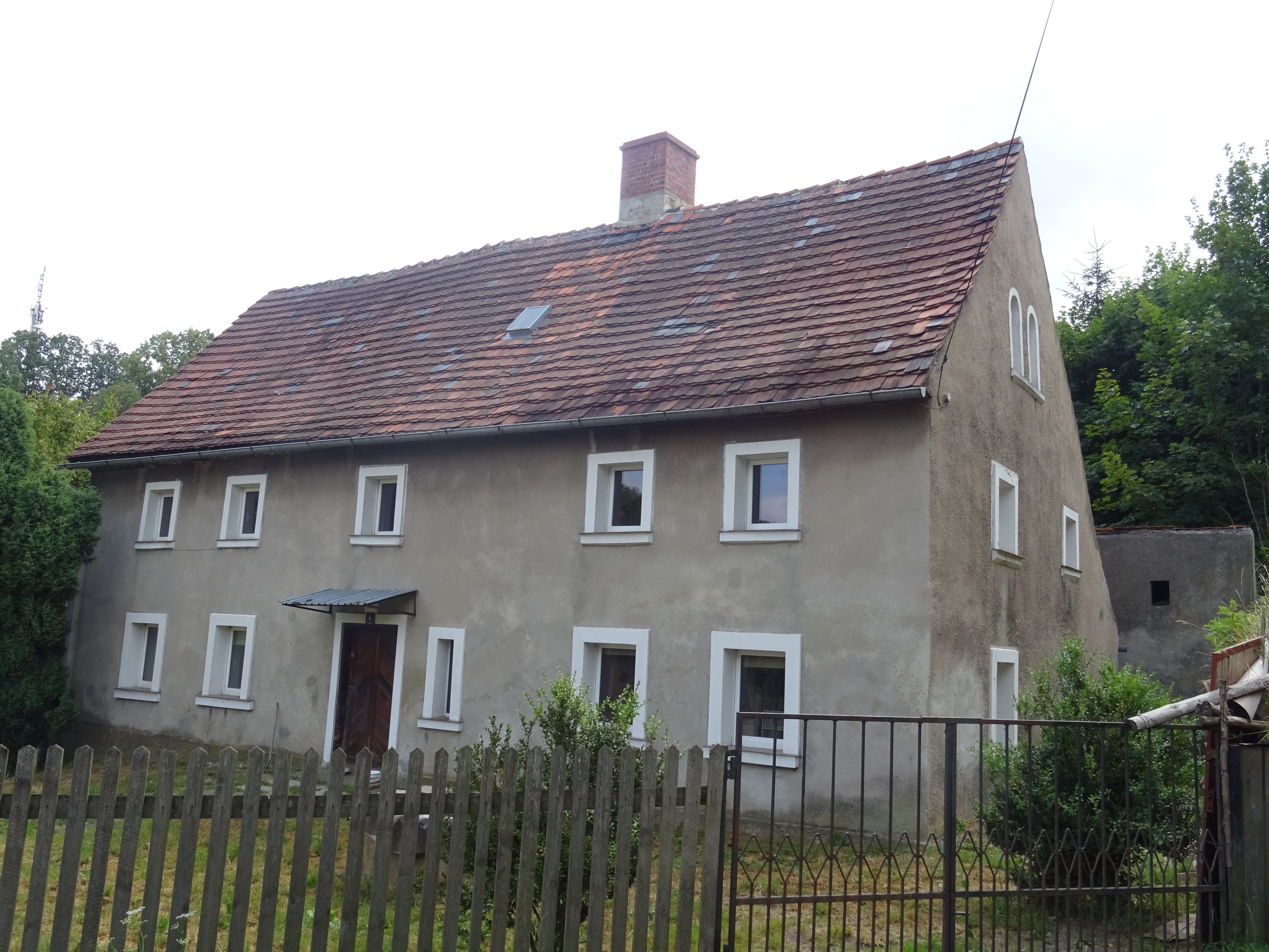 This photograph was created as a part of Wikiexpedition Lower Silesia, a project supported by Wikimedia Poland grant.